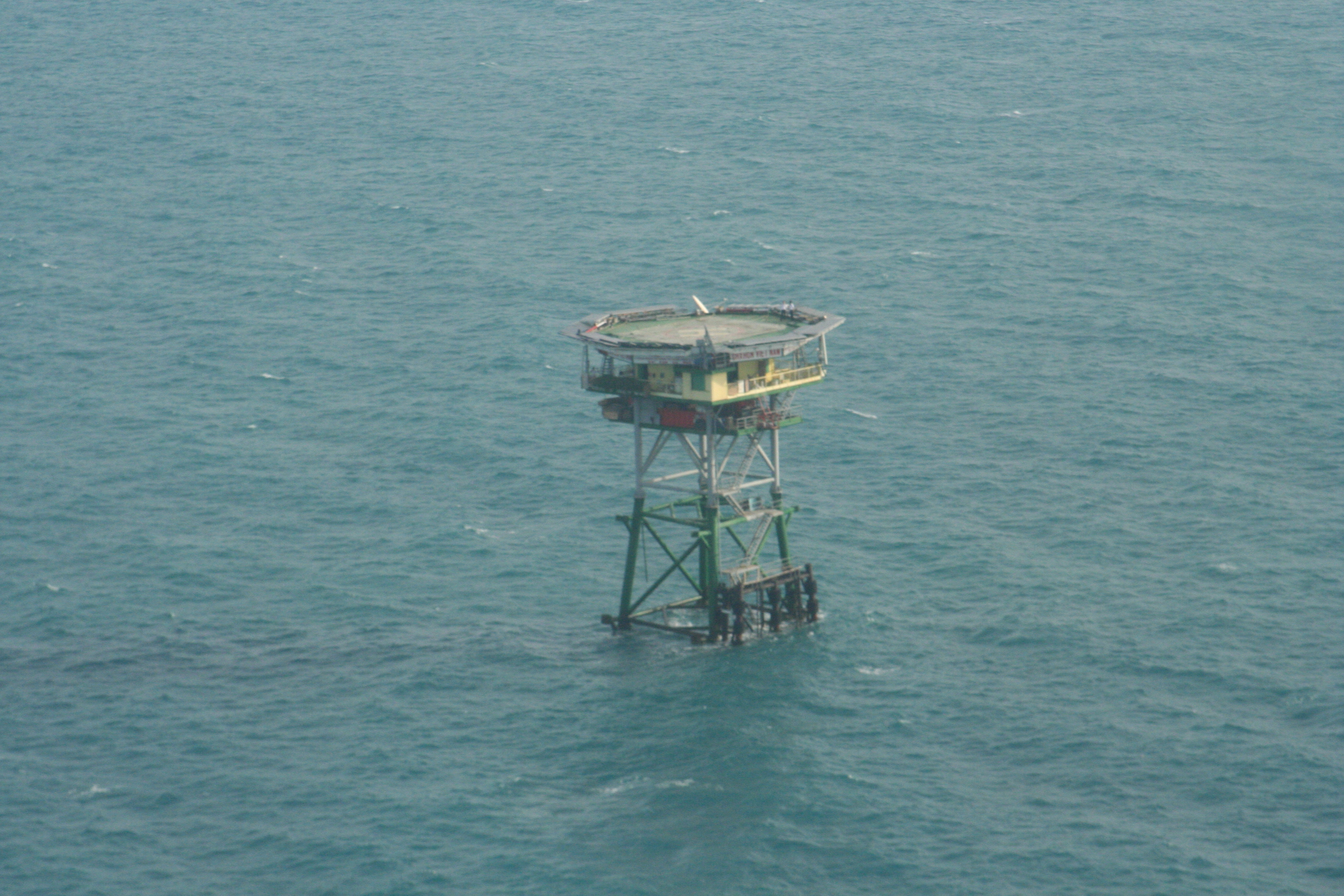 DK1/10 at Ca Mau Shoals - refer DK1 rigs